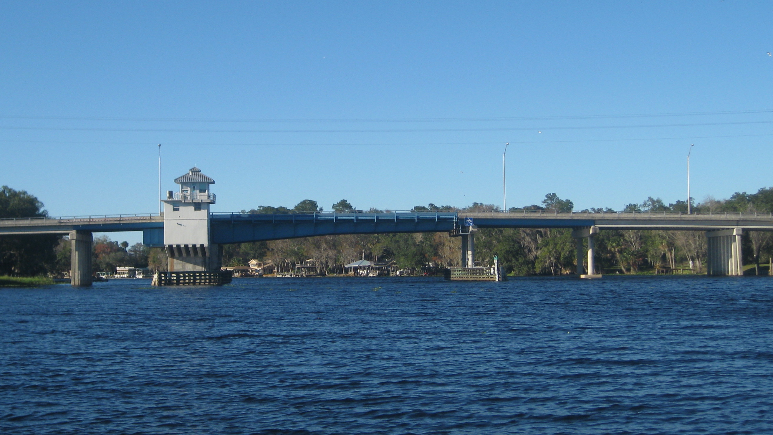 The Astor Bridge, built 1978, is viewed from the south as it carries Florida State Road 40 over the St. Johns River between the communities of Volusia in Volusia County and Astor in Lake County.